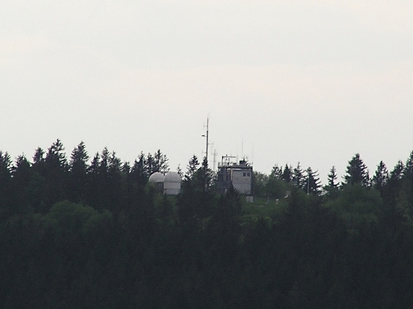 View to the Kleiner Feldberg